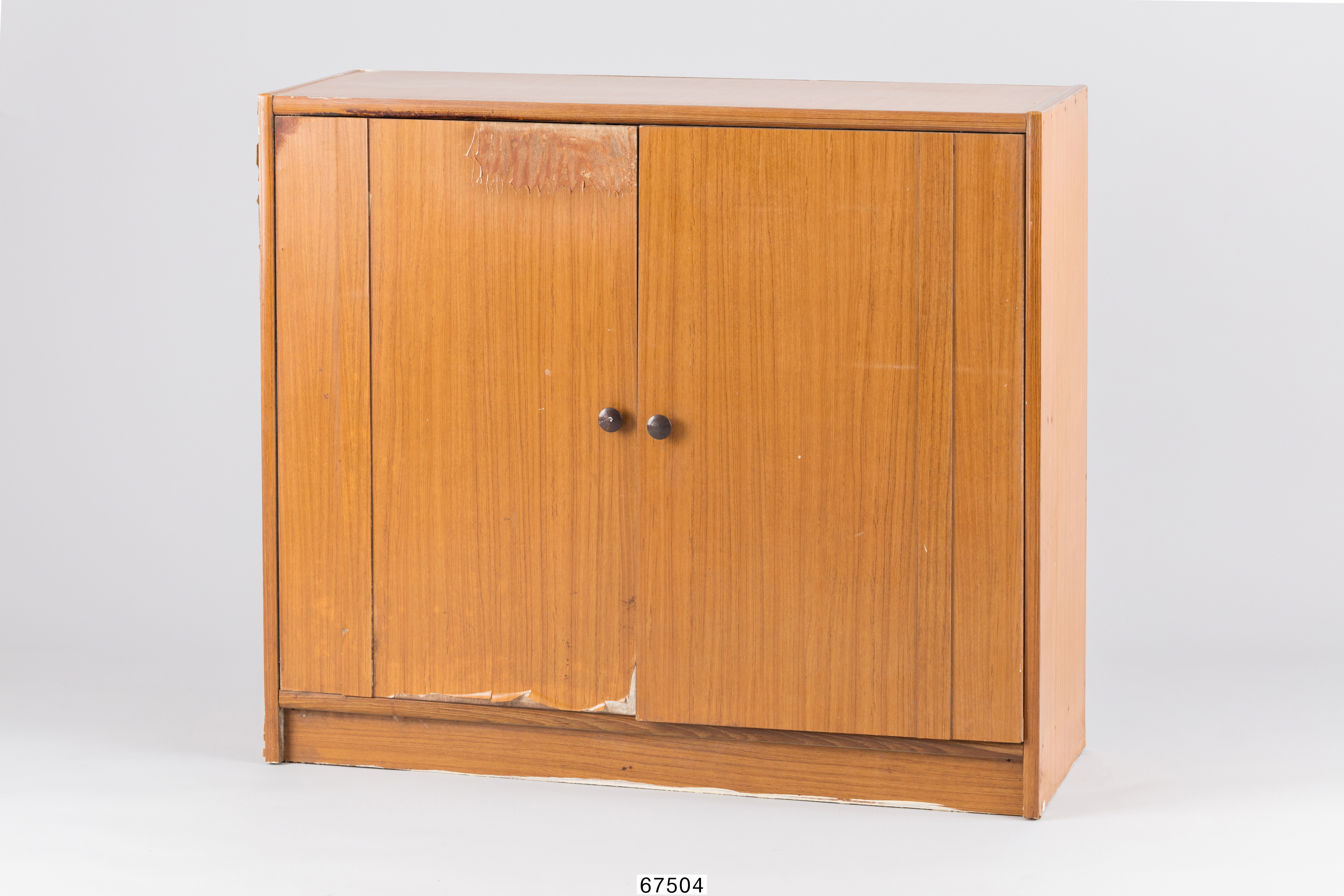 Dangju (chest for storing mengdu, sacred ritual artefacts) of Jeju shaman Yi Jung-chun